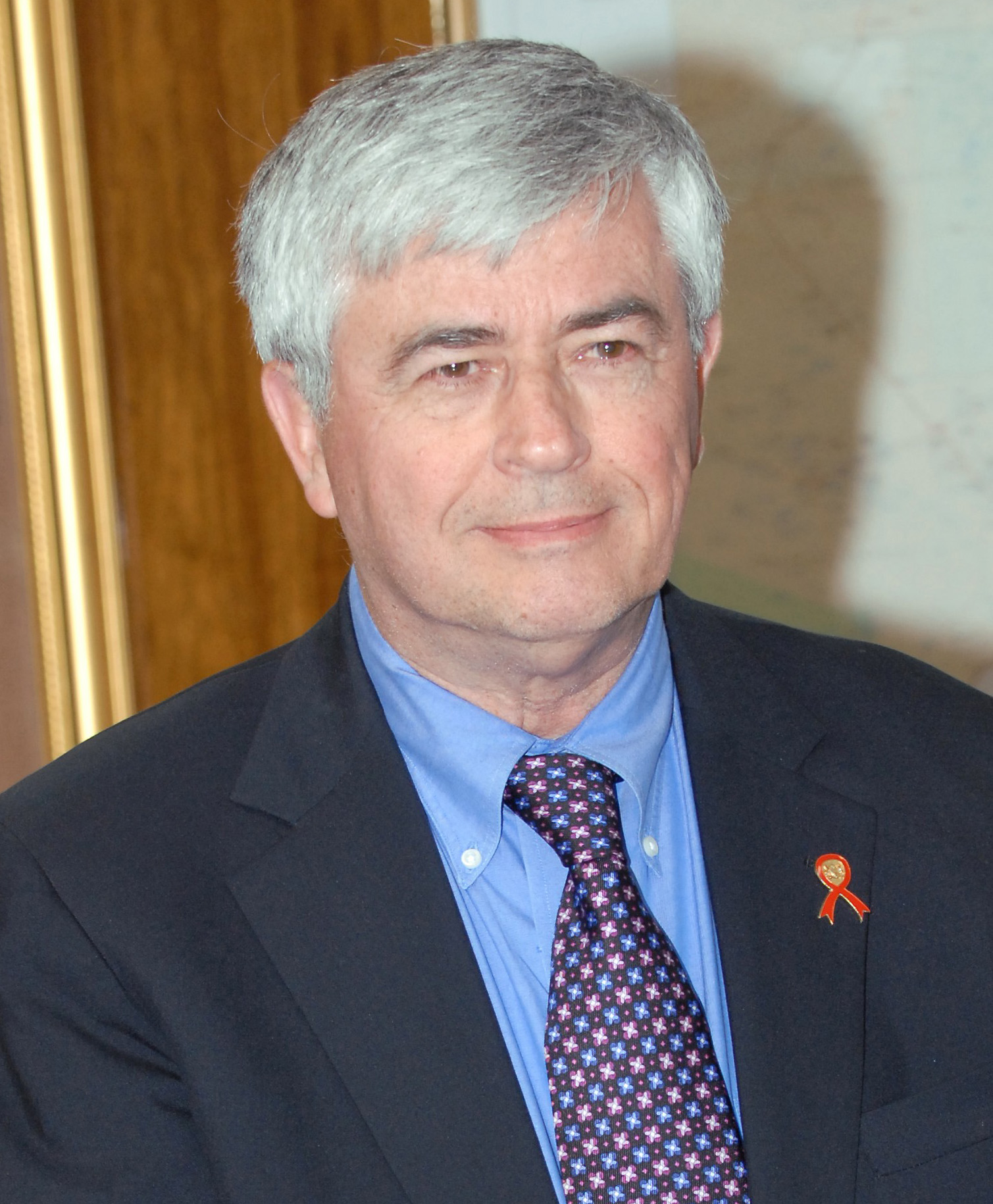 Head shot of Max Essex in Botswana